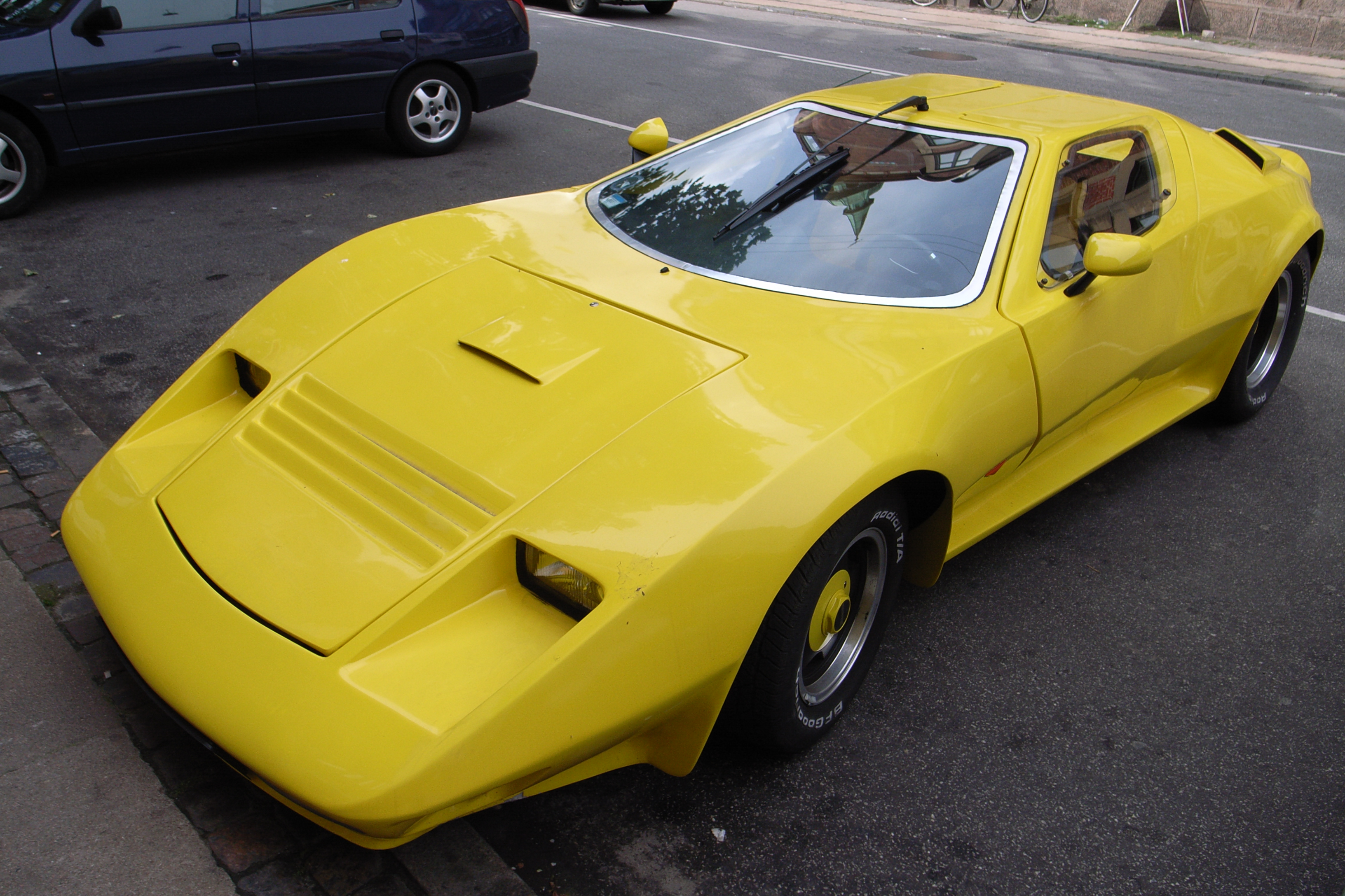 Yellow kit car (Eagle SS)